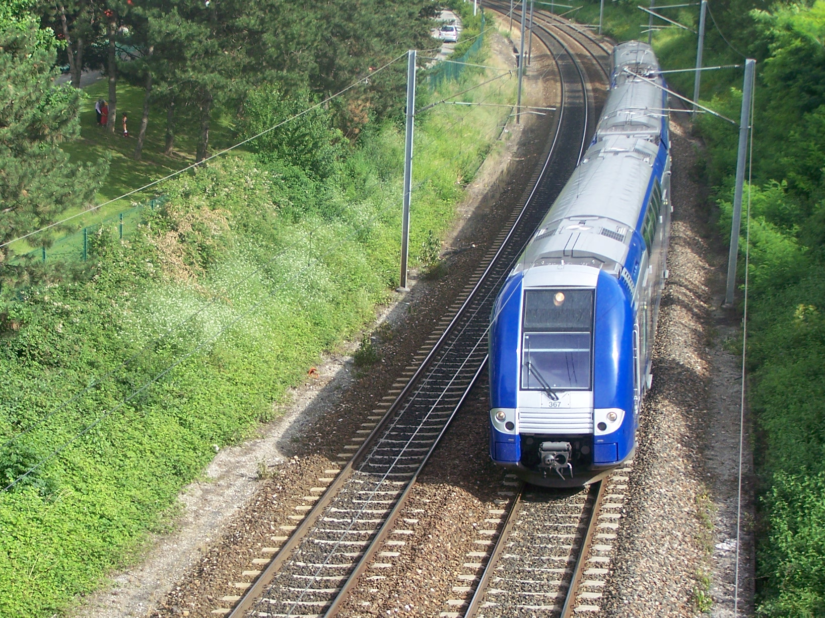 French regional train from Grenoble - Gières University leaving Échirolles and moving towards Grenoble's station, before continuing to Lyon.